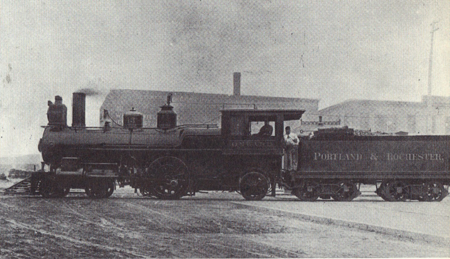 The steam locomotive Onward had initially polygonal driving wheels. It was sold to the Portland and Rochester Railroad, after the polygonal driving wheels had been replaced with conventional ones